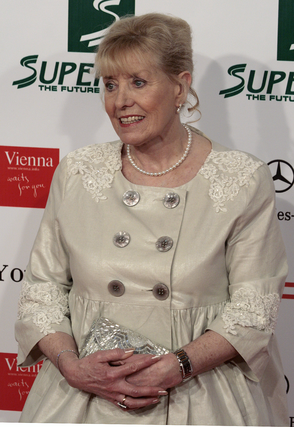 Betty Williams at the Women's World Award 2009 (Wiener Stadthalle, Vienna, Austria) where she recieved the 'World Achievement Award'.